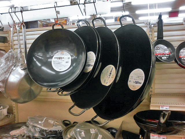 The woks of various sizes marketed.